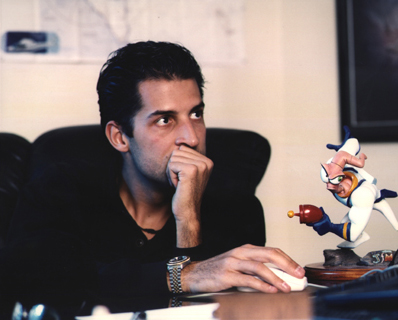 Photograph of Irish game developer David Perry with a miniature of the fictional character he created, Earthworm Jim.